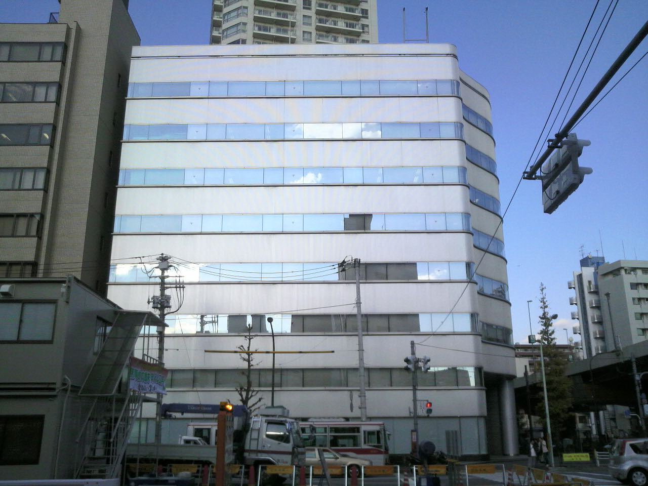 ARBANNET GOTANDA